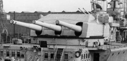 Rear gun turret of the heavy cruiser Lützow